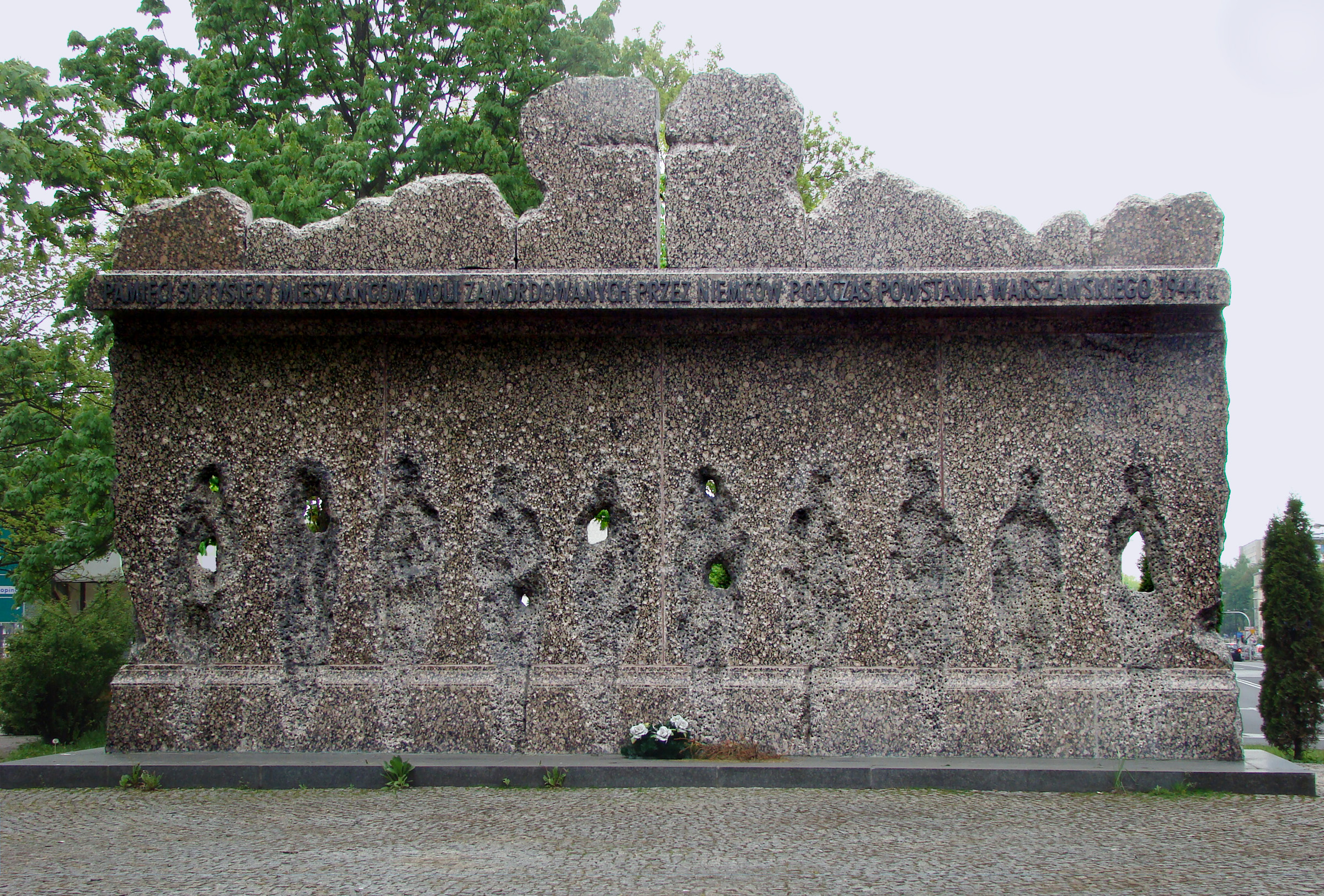 Wola massacre victims memorial